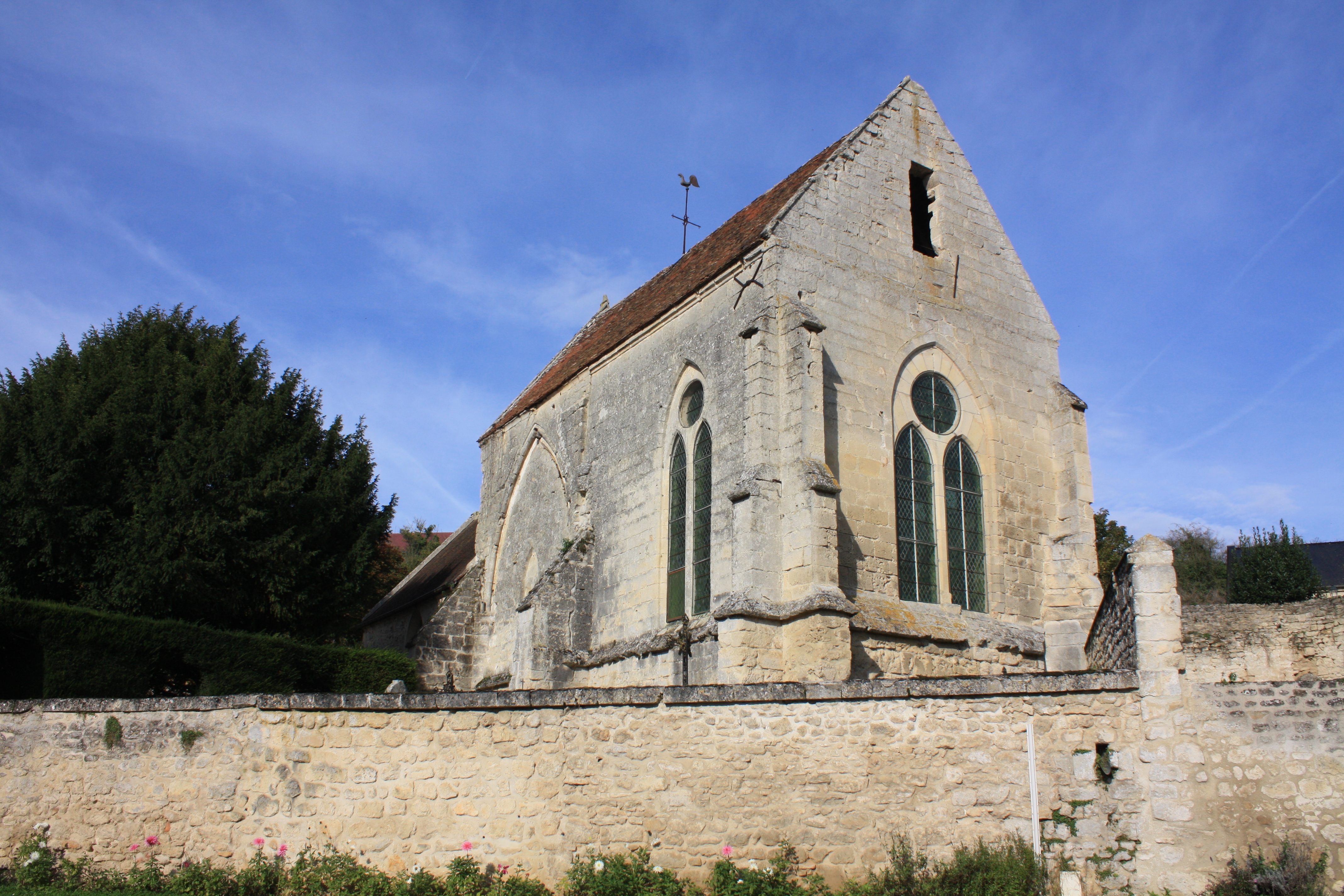 Église Notre-Dame de Tannières